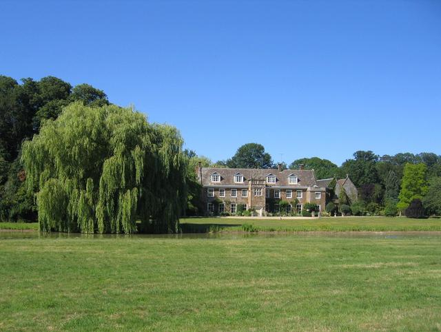 The Priory, Chacombe, Northamptonshire. The priory was founded here by Hugh de Chacombe, lord of the manor of Chalcombe in the reign of Henry II. After the Dissolution of the Monasteries in the 16th century it was replaced by a house, which was then remodelled in the 18th century.